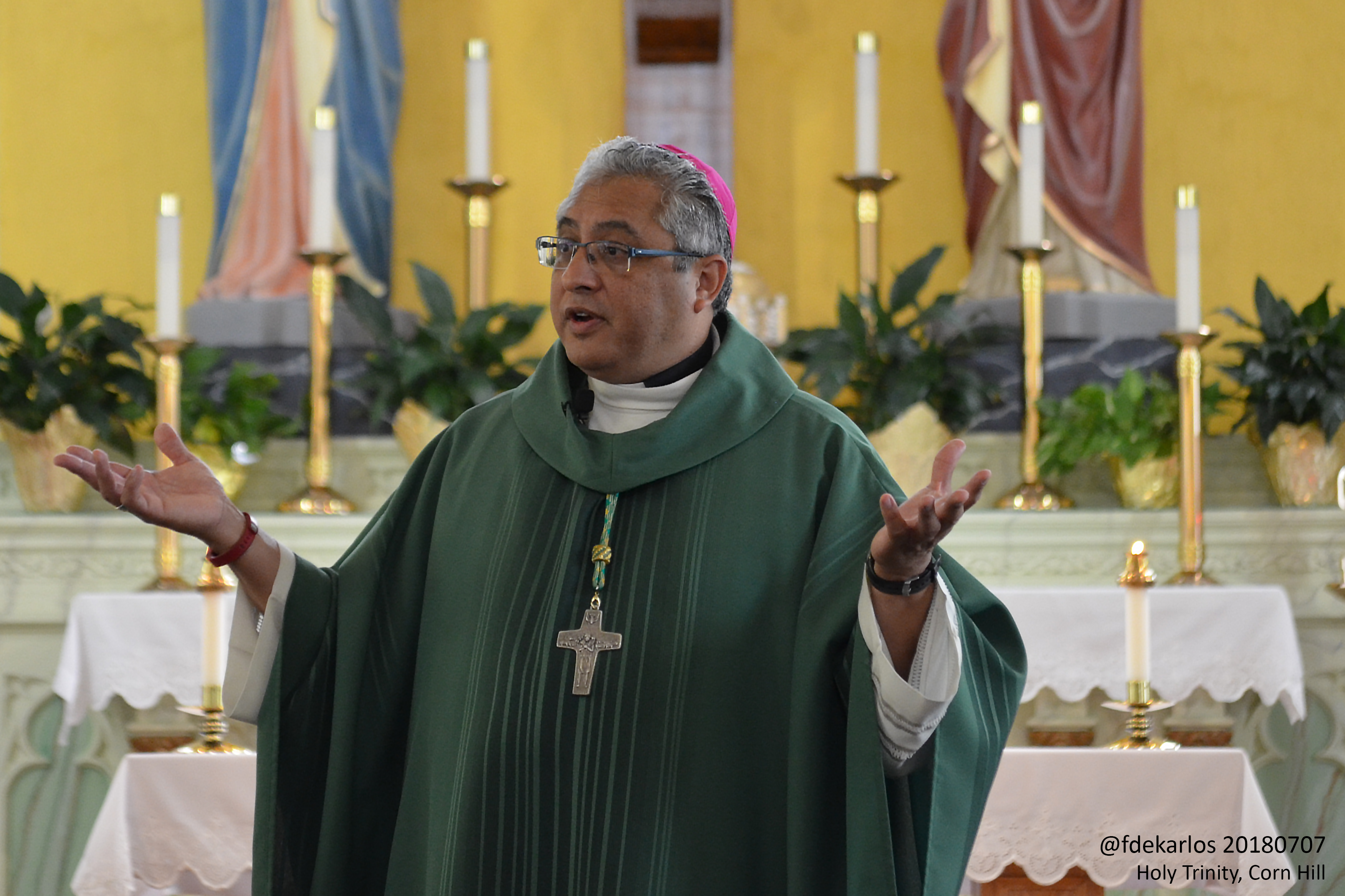 Bishop Daniel Elias Garcia preaches during a Day of Reflection for people engaged in Criminal Justice Ministry in the Diocese of Austin. The retreat day was held at Holy Trinity Church in Corn Hill (Jarrell), Texas on July 7, 2018.